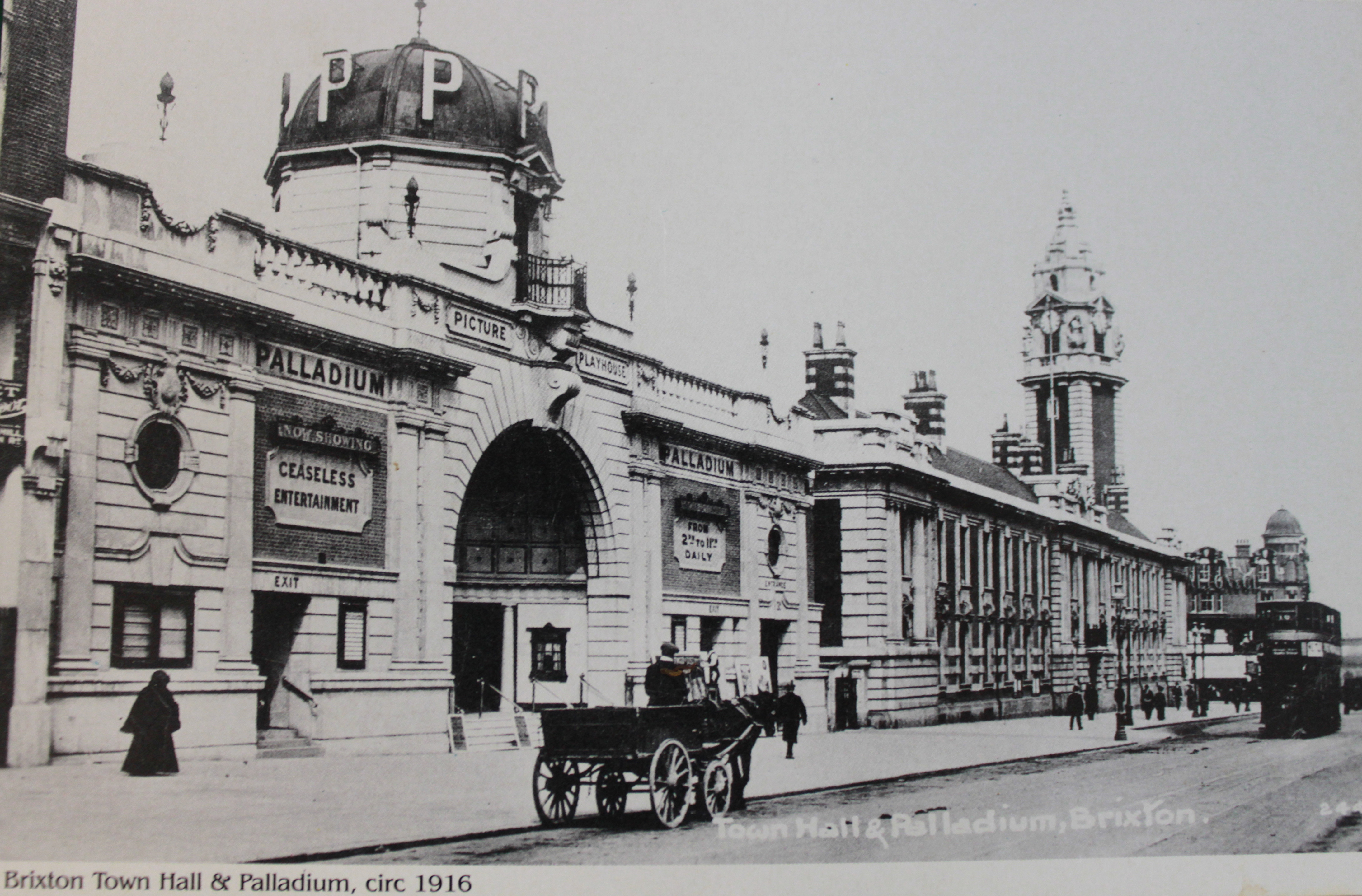 Brixton Town Hall and Palladium in 1916